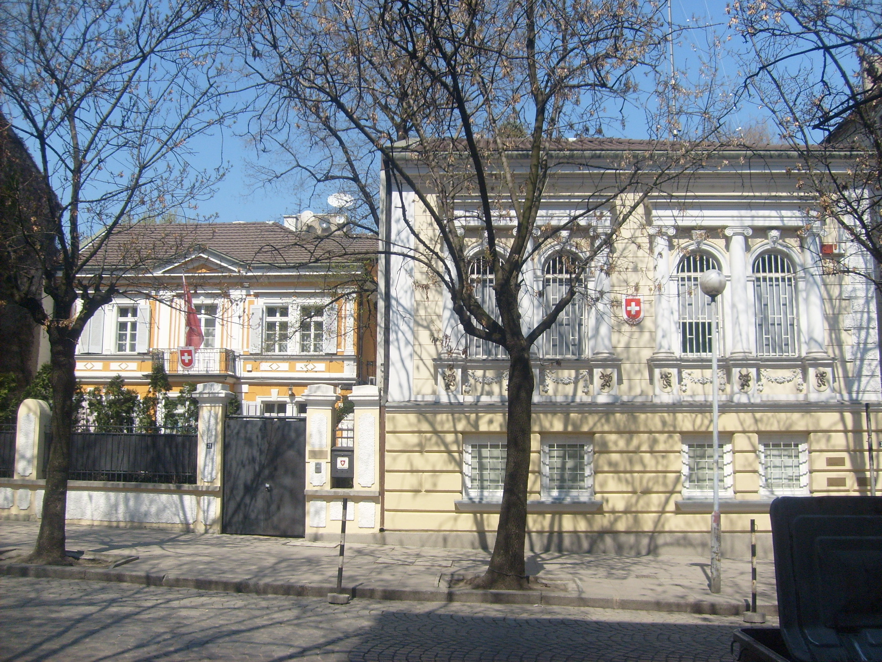 Embassy of Switzerland on Shipka Street in Sofia, Bulgaria